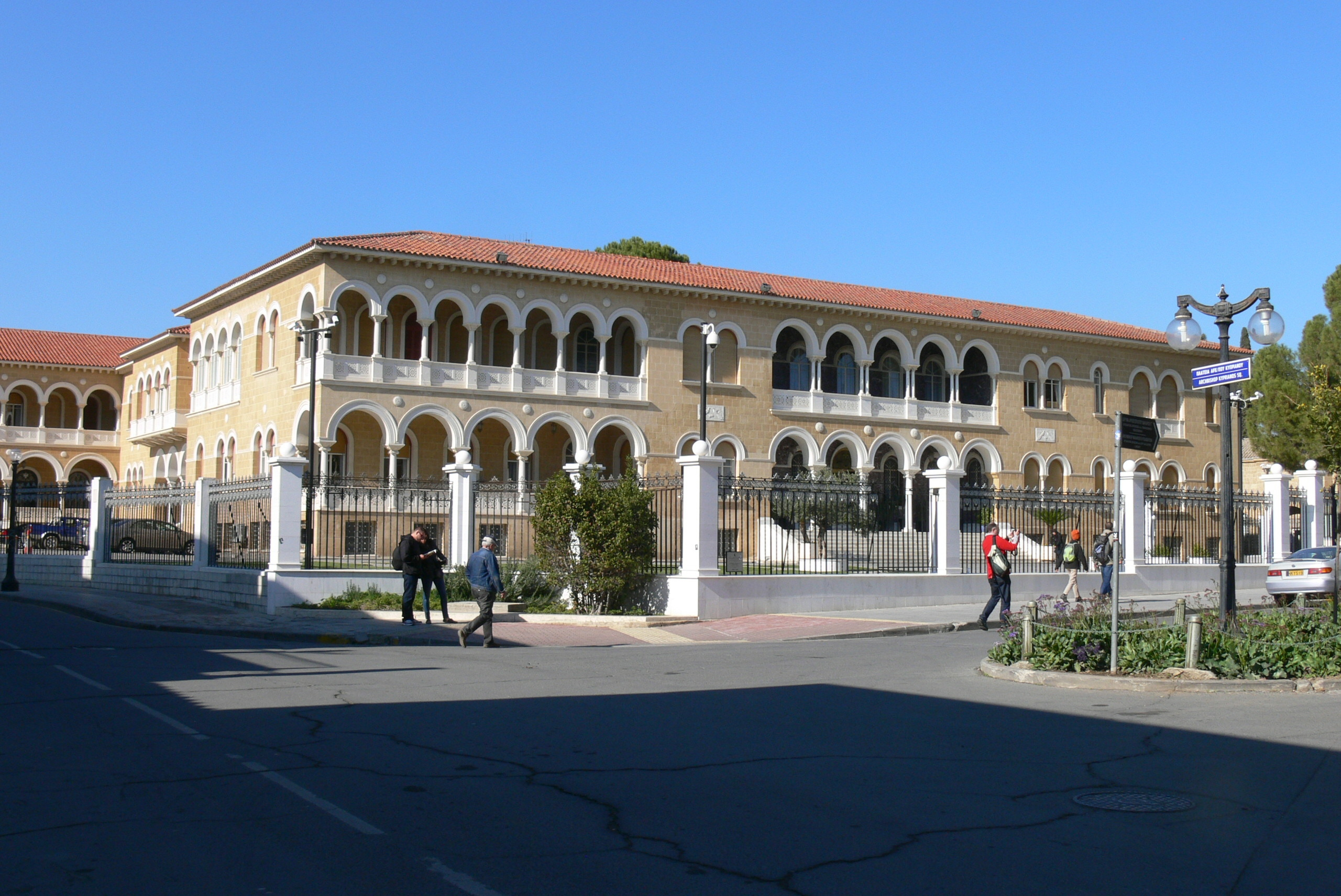 Nicosia ( Cyprus ). Palace of the archbishop.